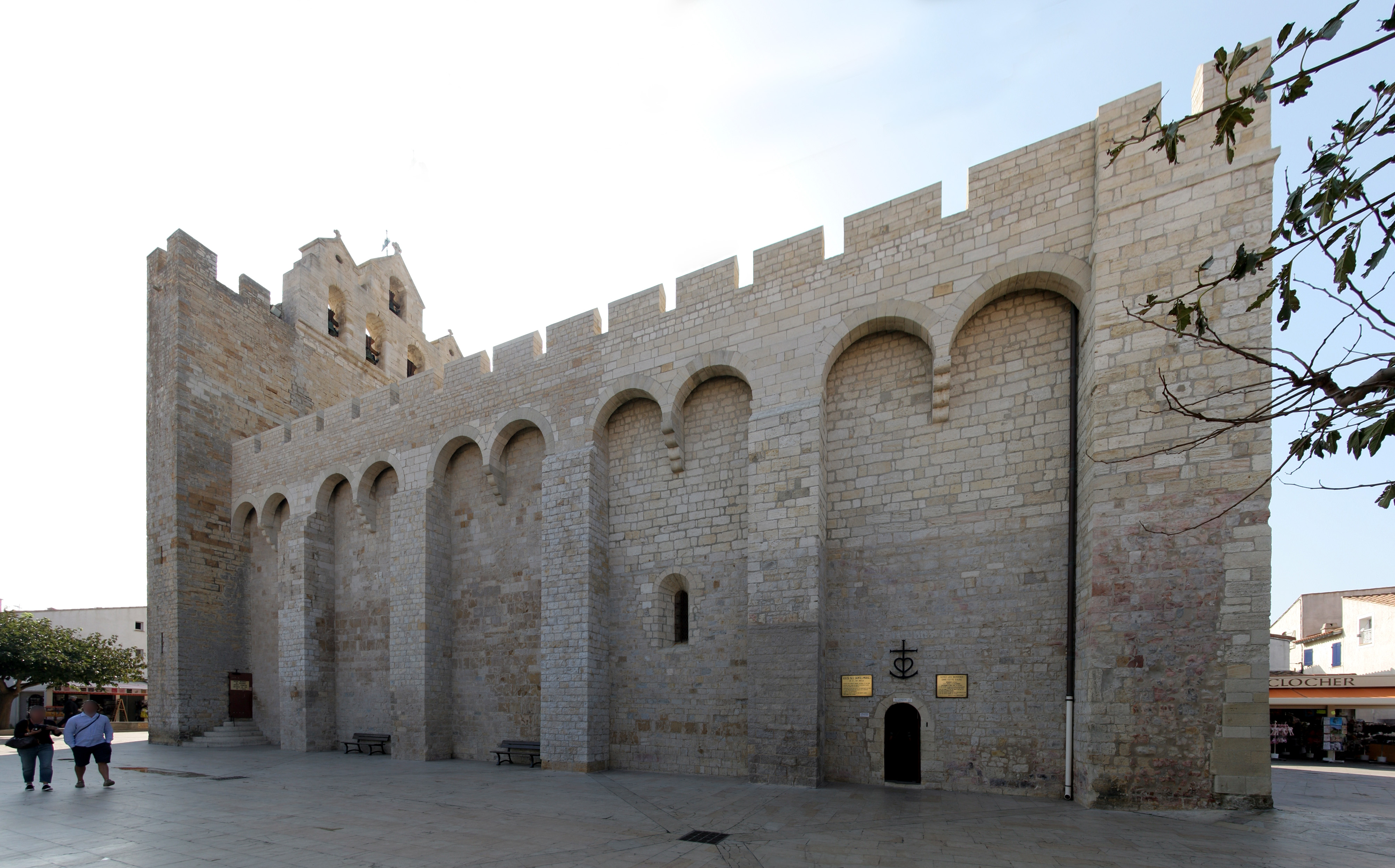 The church Notre Dame de la Mer in Saintes-Maries-de-la-Mer (France). Made by stitching 4 single pictures using Hugin. Horizonal angle ca. 125°.